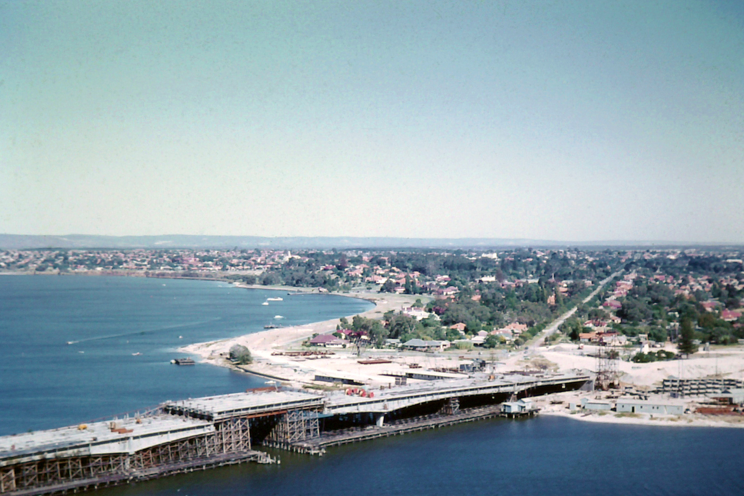 Narrows Bridge under construction c. 1958-59 date based on building detail which show last pylon was set in Nov 1958, and last span completed in June 1959